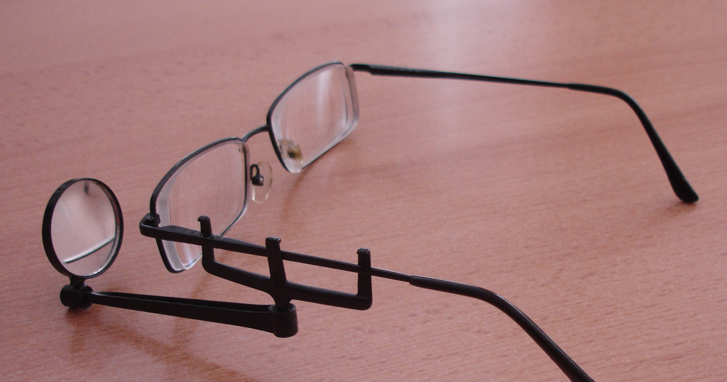 Spectacle mounted rear view mirror